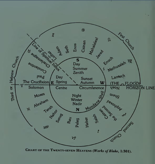 A diagram which illustrates the notion of the Twenty Seven Heavens, or Churches, as noted by William Blake in his poetry and has been fully extended and illustrated by Edwin John Ellis and W. B. Yeats.